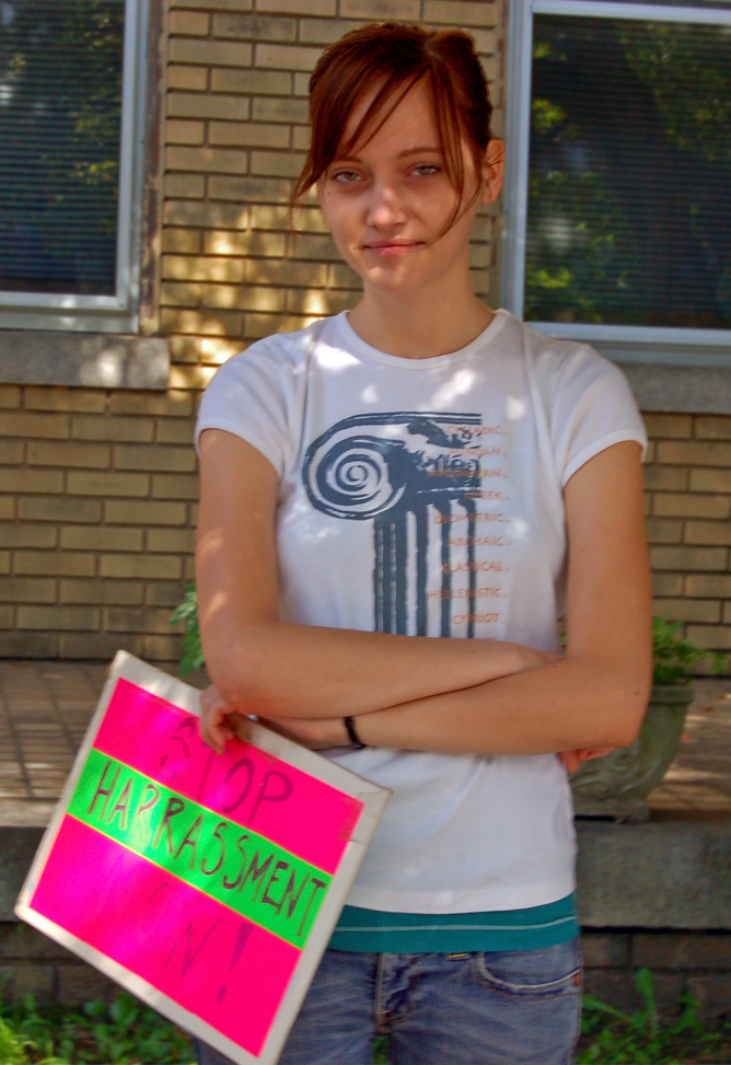 In front of the Richmond Women's Medical Center, standing opposite a gang of abortion protesters. Boulevard; Richmond VA